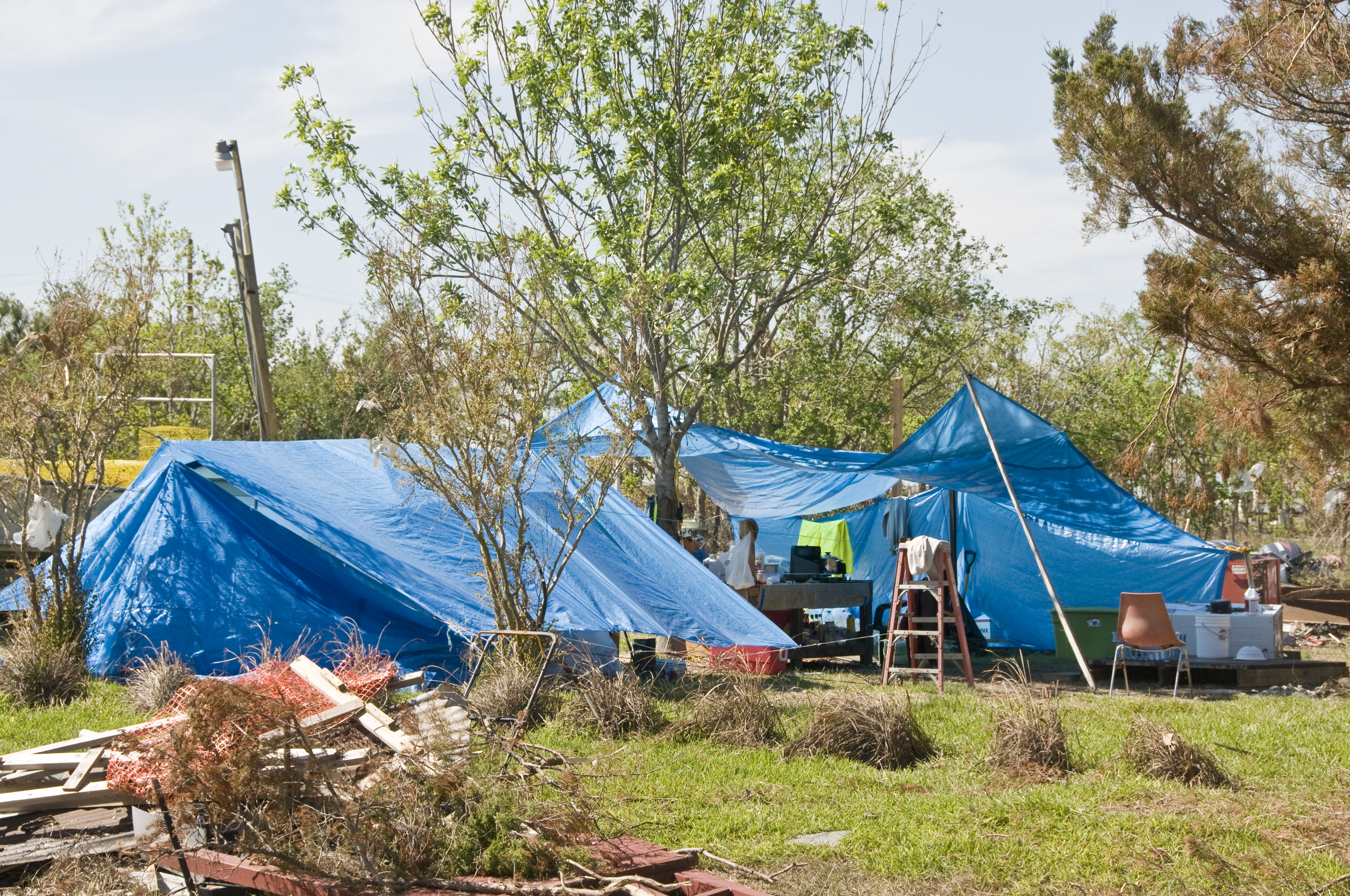 Oak Island, TX, October 25, 2008 -- A few residents of Oak Island,TX are still living in tents months after Hurricane Ike destroyed their homes. FEMA is working with state and local agencies to address the housing needs of residents affected by Hurricane Ike.